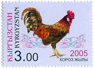 Stamp of Kyrgyzstan